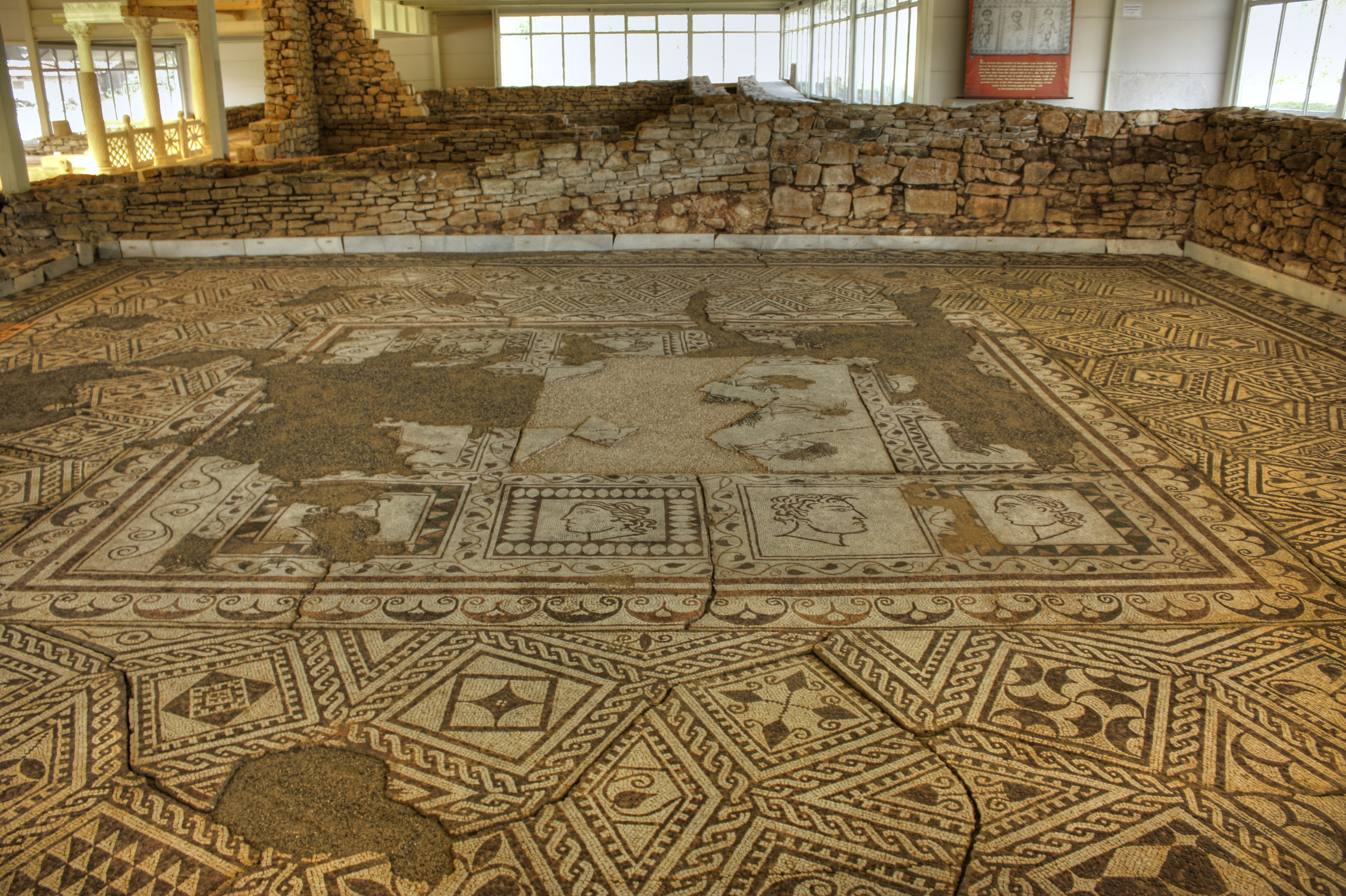 The most impressive findings at the ancient Roman Villa "Armira" that was discovered in 1964 near the Bulgarian city Ivailovgrad was the mosiacs with thich the floors were decorated...